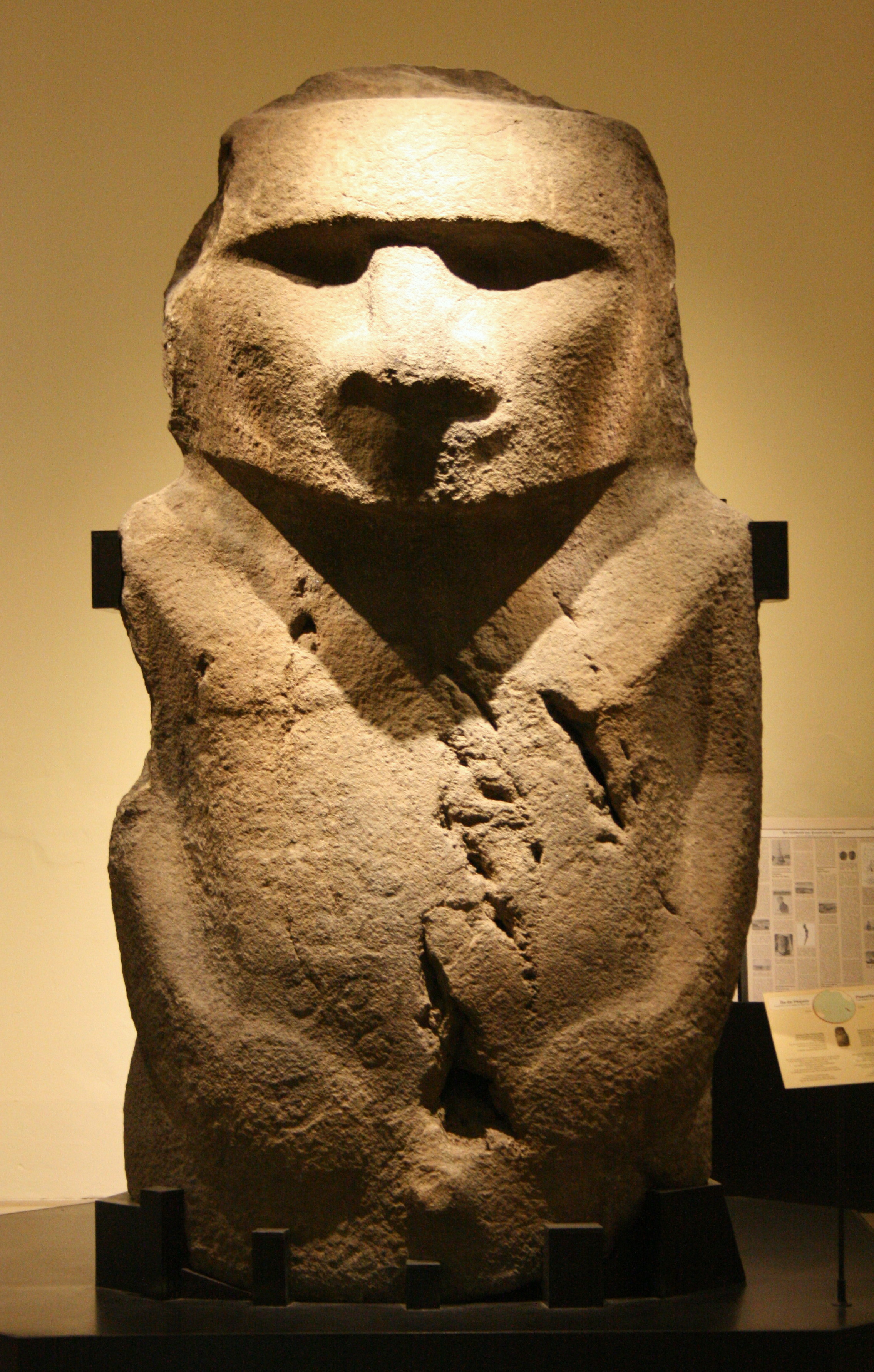 Statue of Pou Hakanononga, the tuna fishing god, Easter Island ( end 13th century). Musée du Cinquantenaire, Brussels (Belgium)